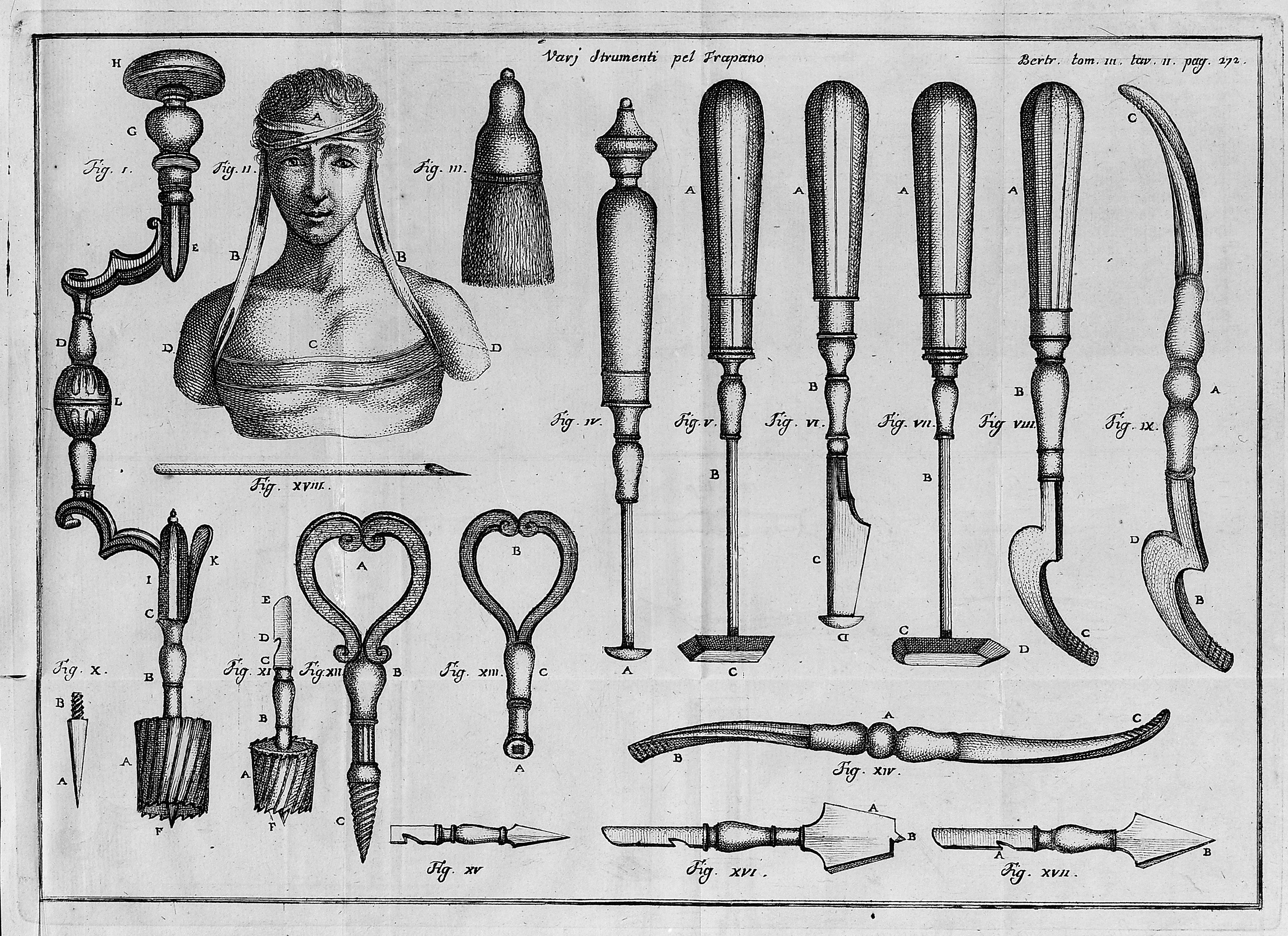 Instruments for trephination Rare Books Keywords: chirurgerie; medicine, 18th century; Giovani Ambrogio Maria Bertrandi; surgery, 18th century; trephination